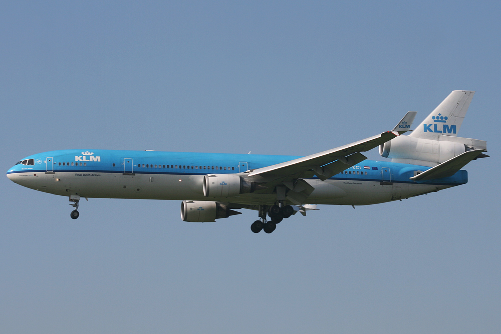 PH-KCI KLM Royal Dutch Airlines McDonnell Douglas MD-11